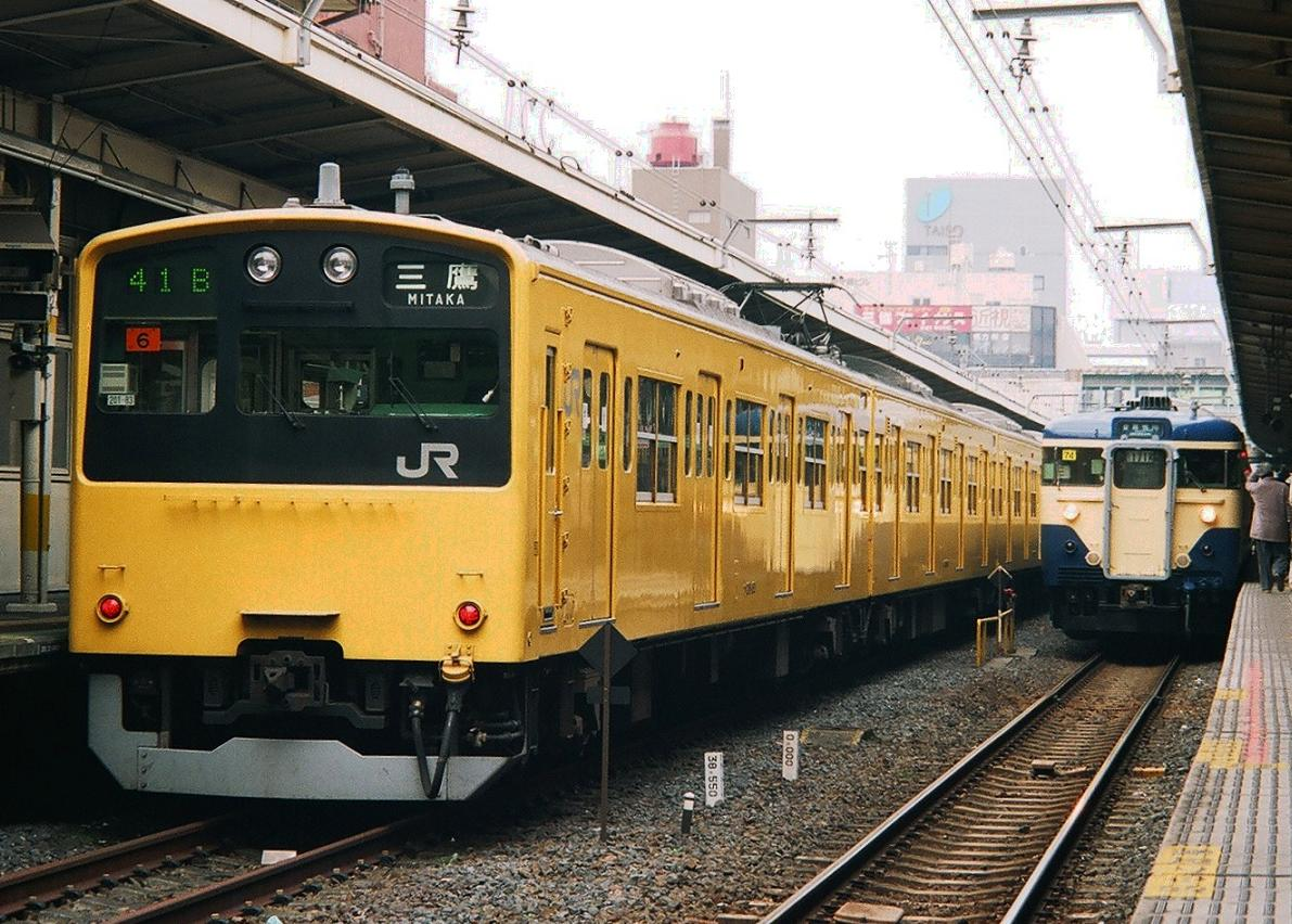 A JR East 201 series Chuo-Sobu Line EMU at Chiba Station